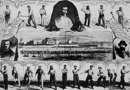 This is a scaled-down scan from the book Baseball in America, Robert Smith, Holt Rinehart Winston, 1961, p.13.